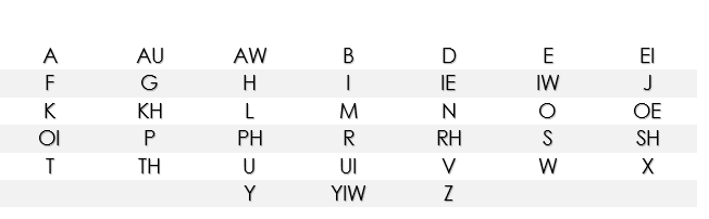 Mro Language Alphabet